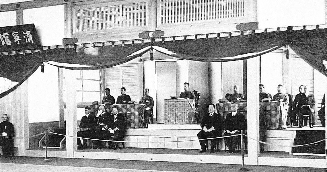 Emperor Showa in Saineikan